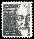 From